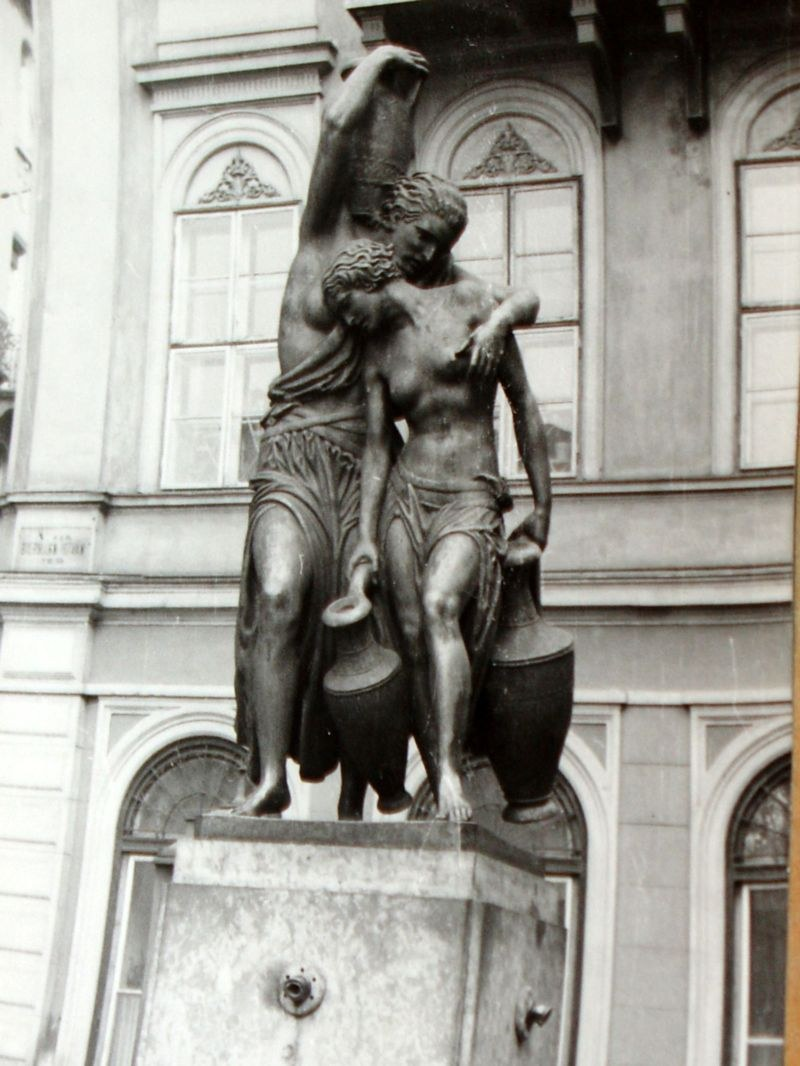 The Fountain of the Danaides in Budapest